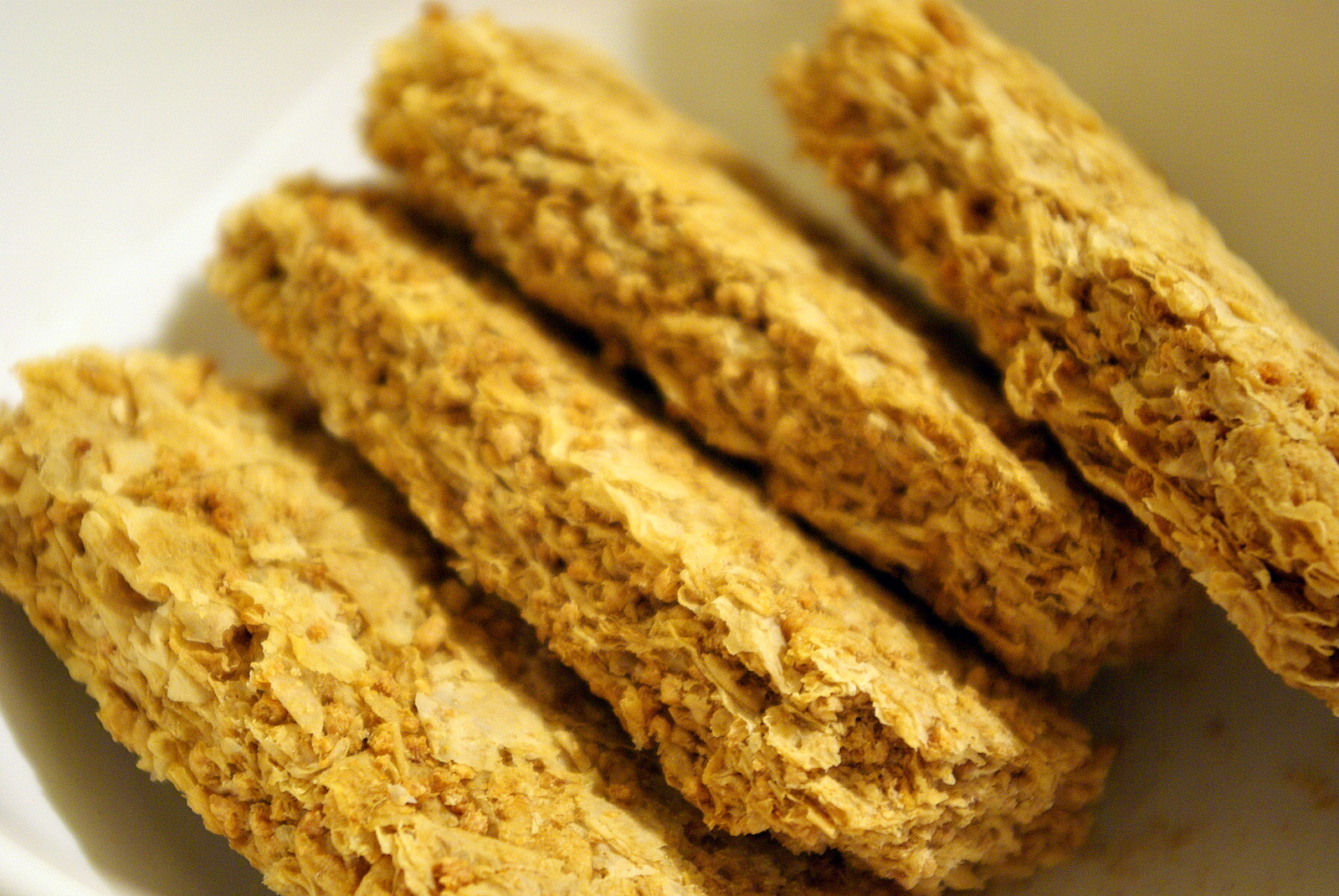 Four Weetbix in a bowl.